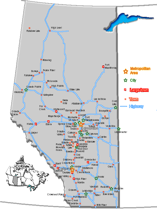 Map of Alberta with cities, towns and roads